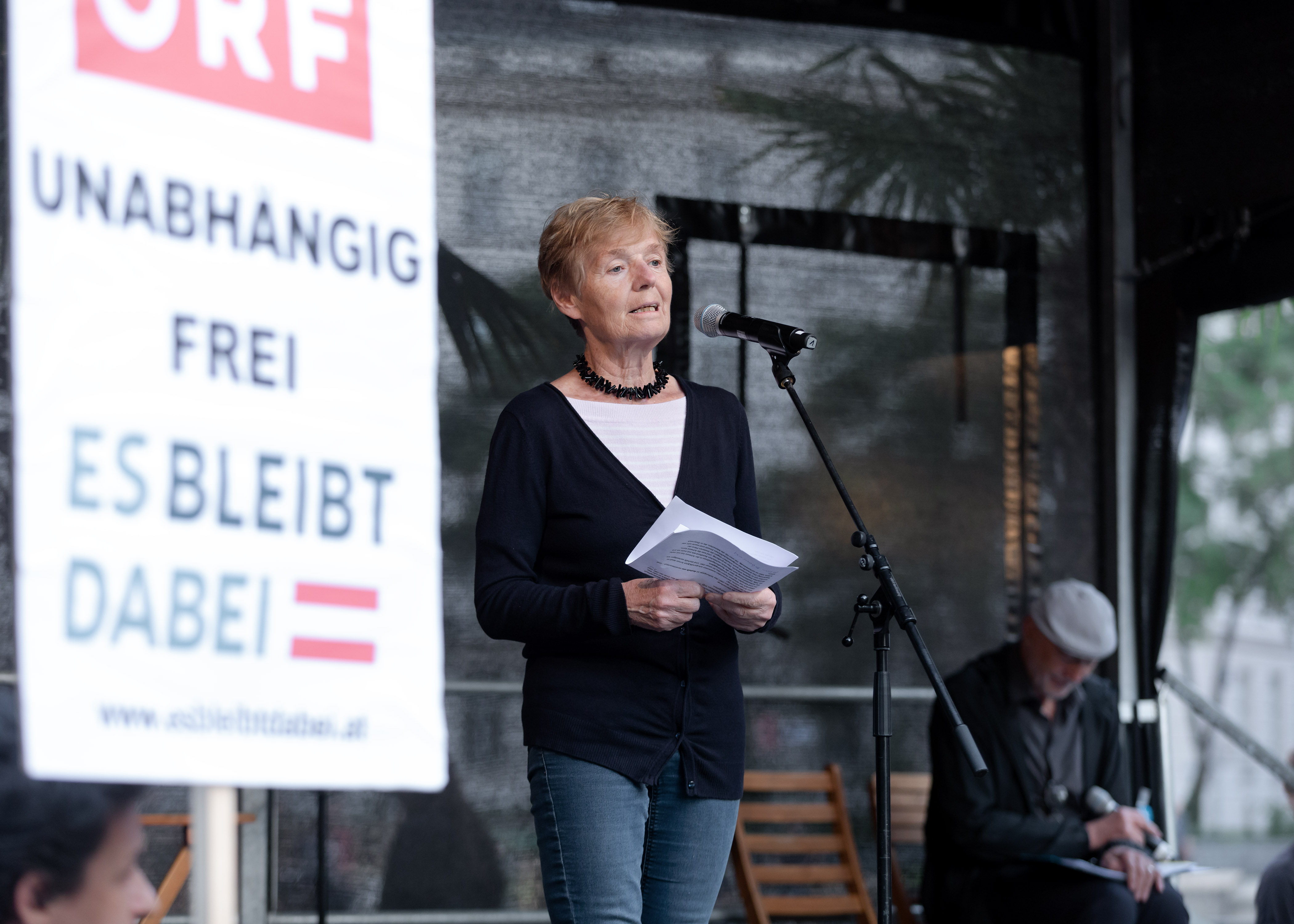 Friedrun Huemer at a protest against the governments plans for the ORF (Karlsplatz, Vienna, Austria).